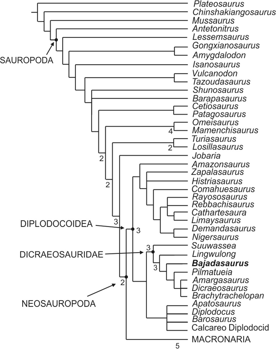 Phylogenetic position of Bajadasaurus pronuspinax gen. et sp. nov (MMCh-PV 75) within Dicraeosauridae (see Supplementary Information). Bremer support values higher than one are shown.